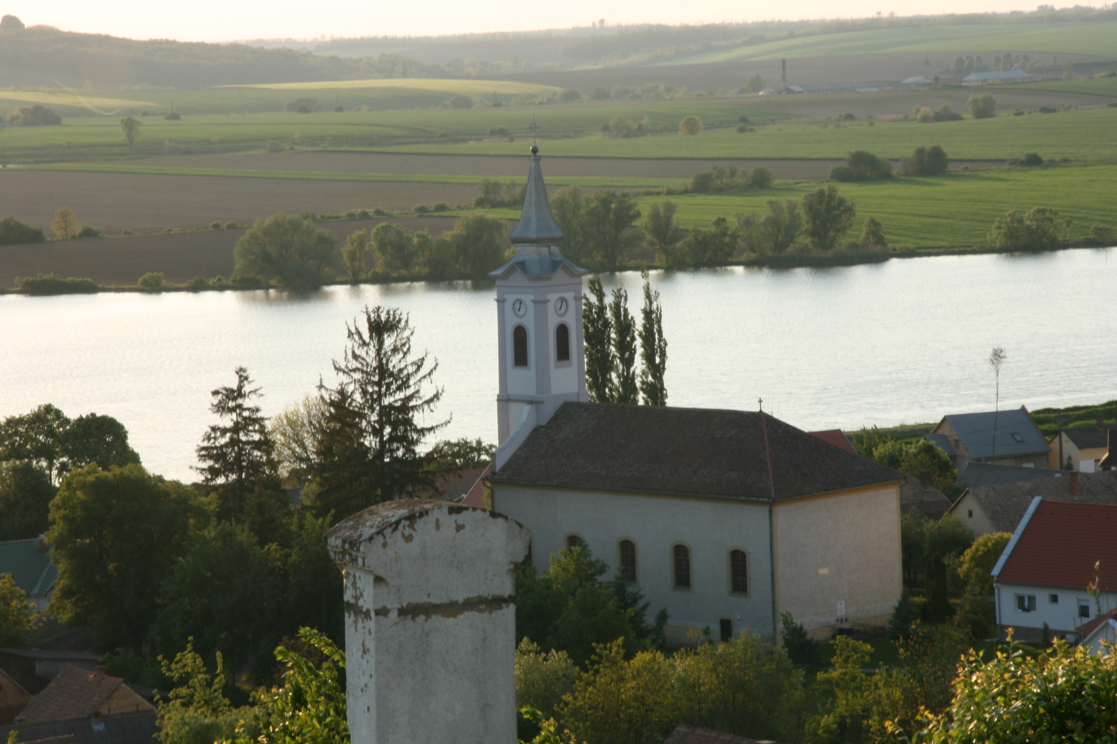 Saint Andrew catholic church in Alsómocsolád, a small village in Hungary.